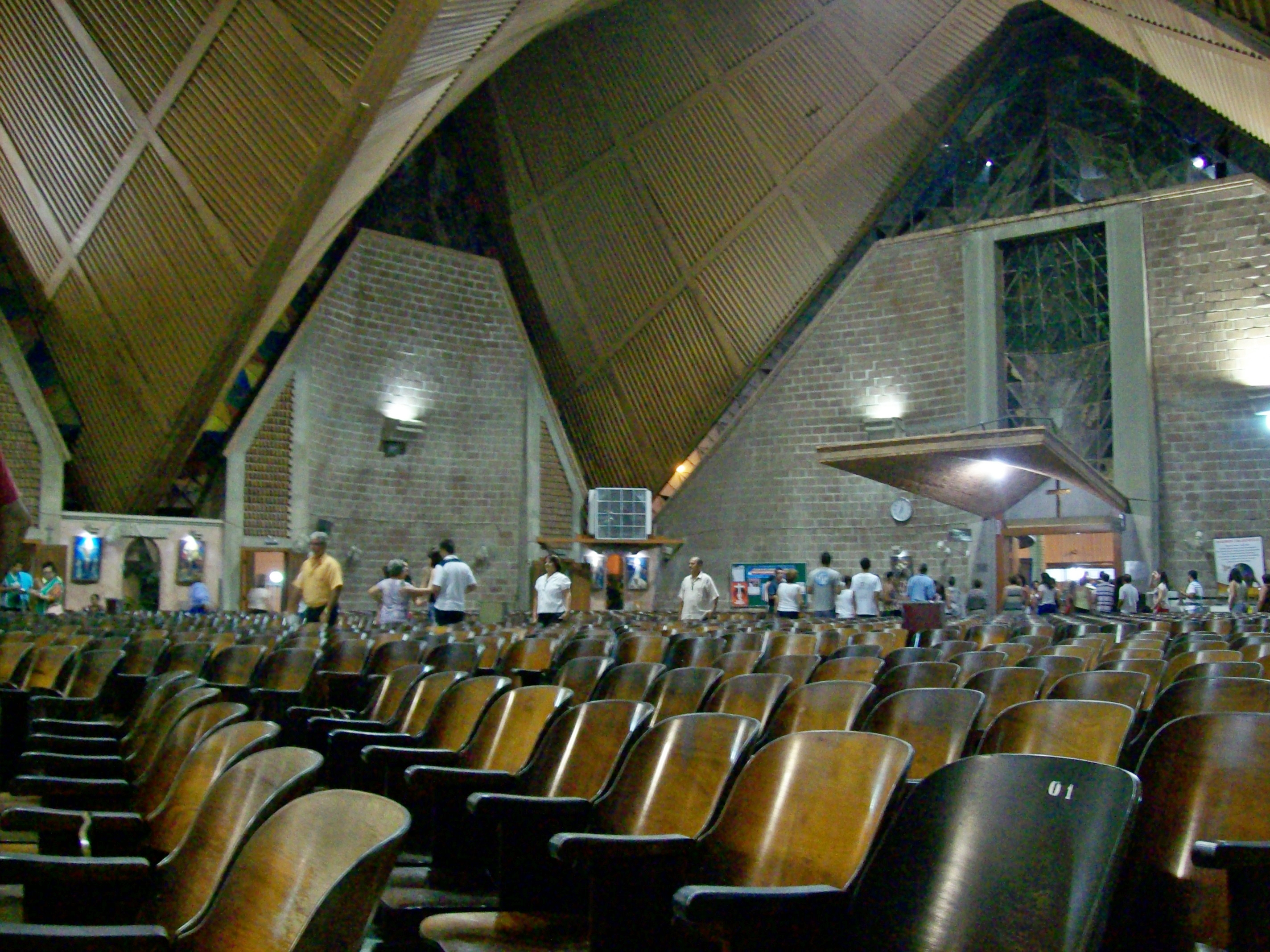 Partial nocturn view of the interior of the Saint Sebastian Cathedral, in Coronel Fabriciano, Minas Gerais, Brazil.